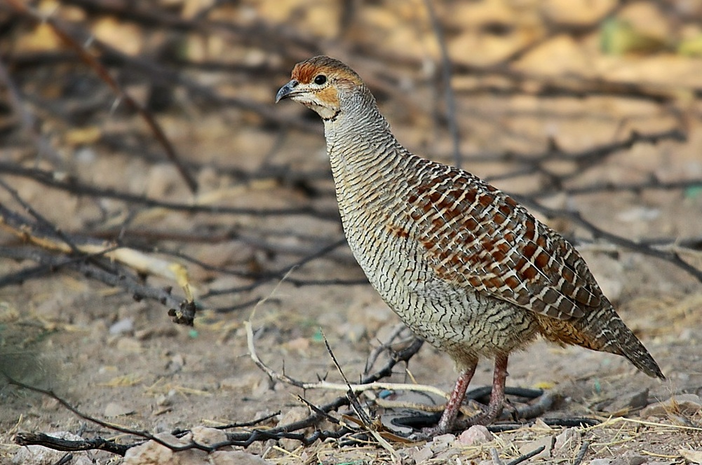 Grey Francolin, also known as Teetar, because of its call, is known more for its graceful runs. .